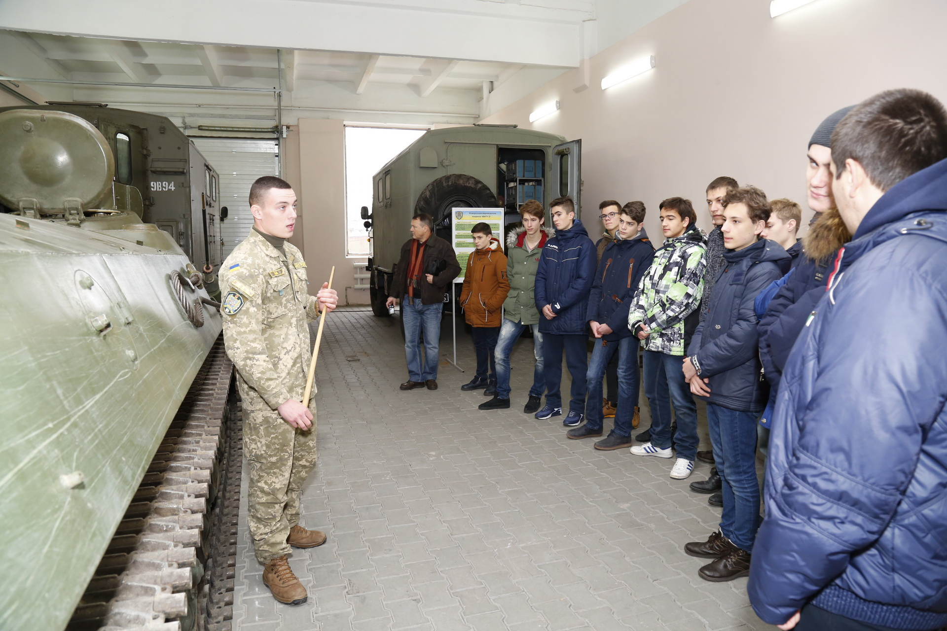 У Військовій академії (м. Одеса) відбувся день відкритих дверей